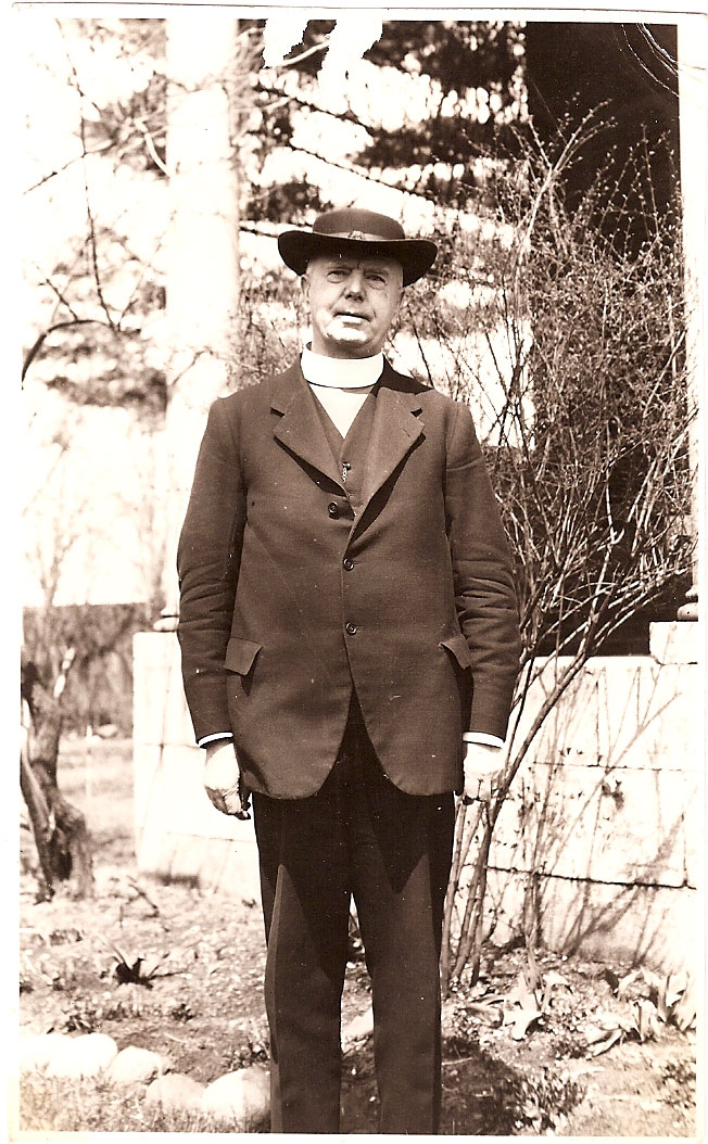 George Exton Lloyd, Bishop of Saskatchewan 1922-1931